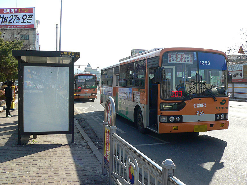 Jeonju City Bus